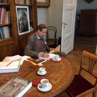 National Museum Warsaw May 2017